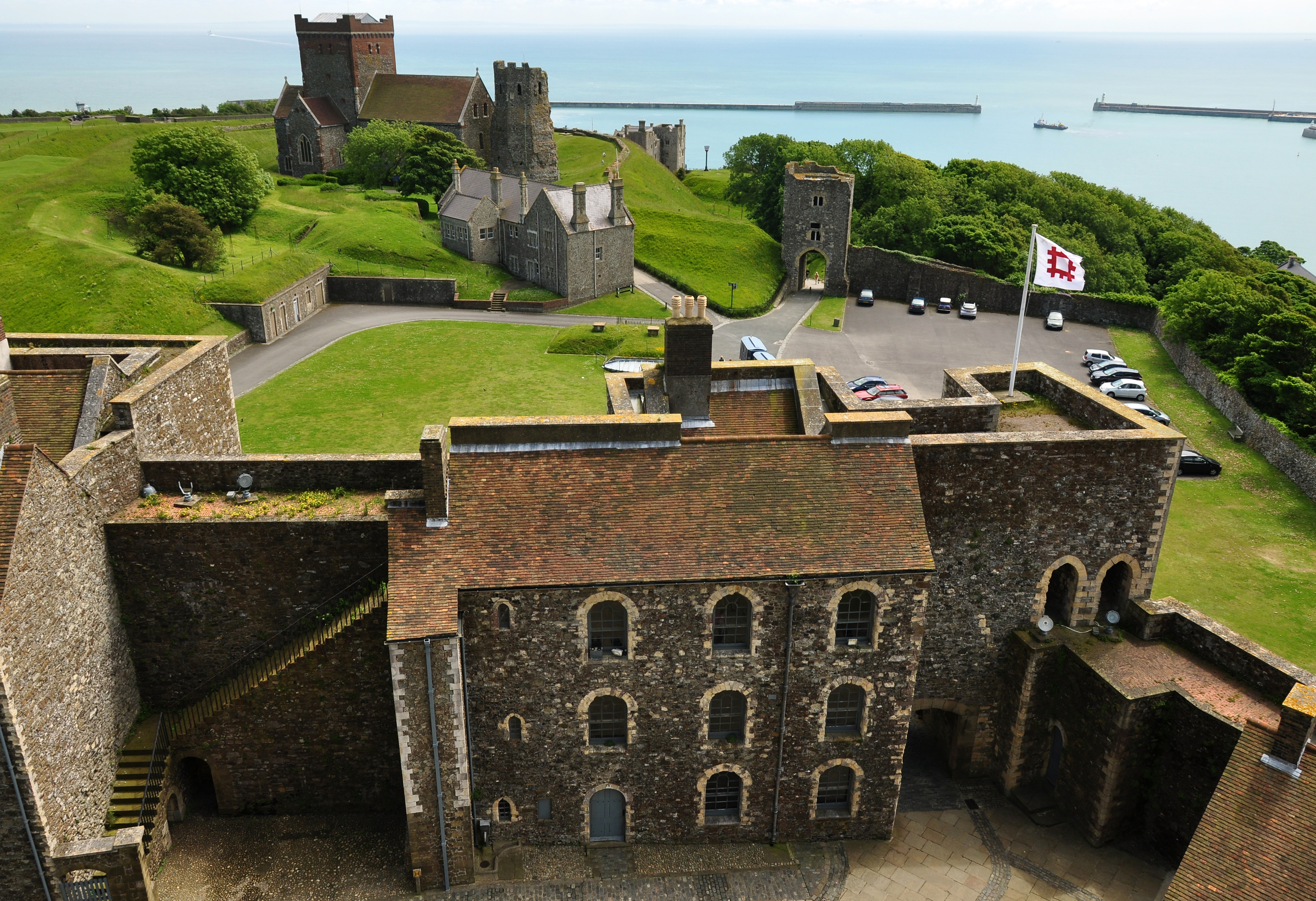 View south from the keep of Dover Castle, looking towards the church of St Mary in Castro, the Roman lighthouse and France.